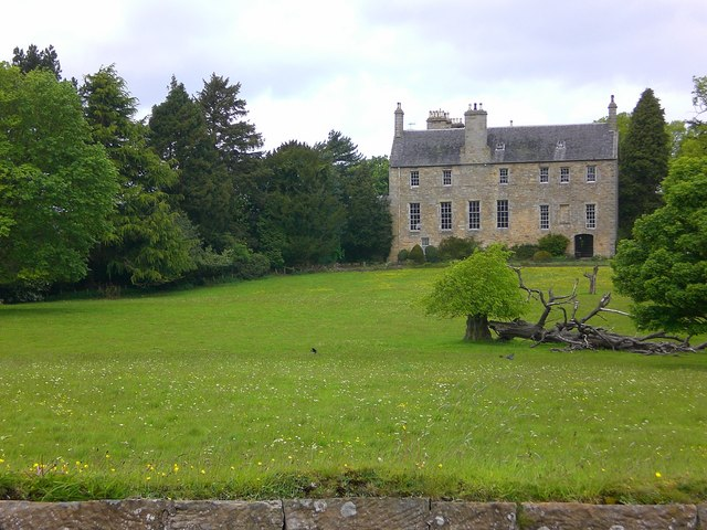 Calder House, Midcalder